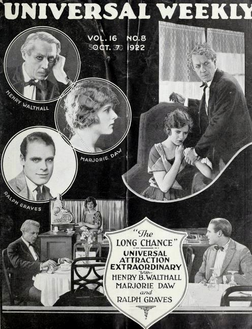 Stills from the American film The Long Chance (1922) with Henry B. Walthall, Marjorie Daw, and Ralph Graves, on the front cover to the October 7, 1922 Universal Weekly.